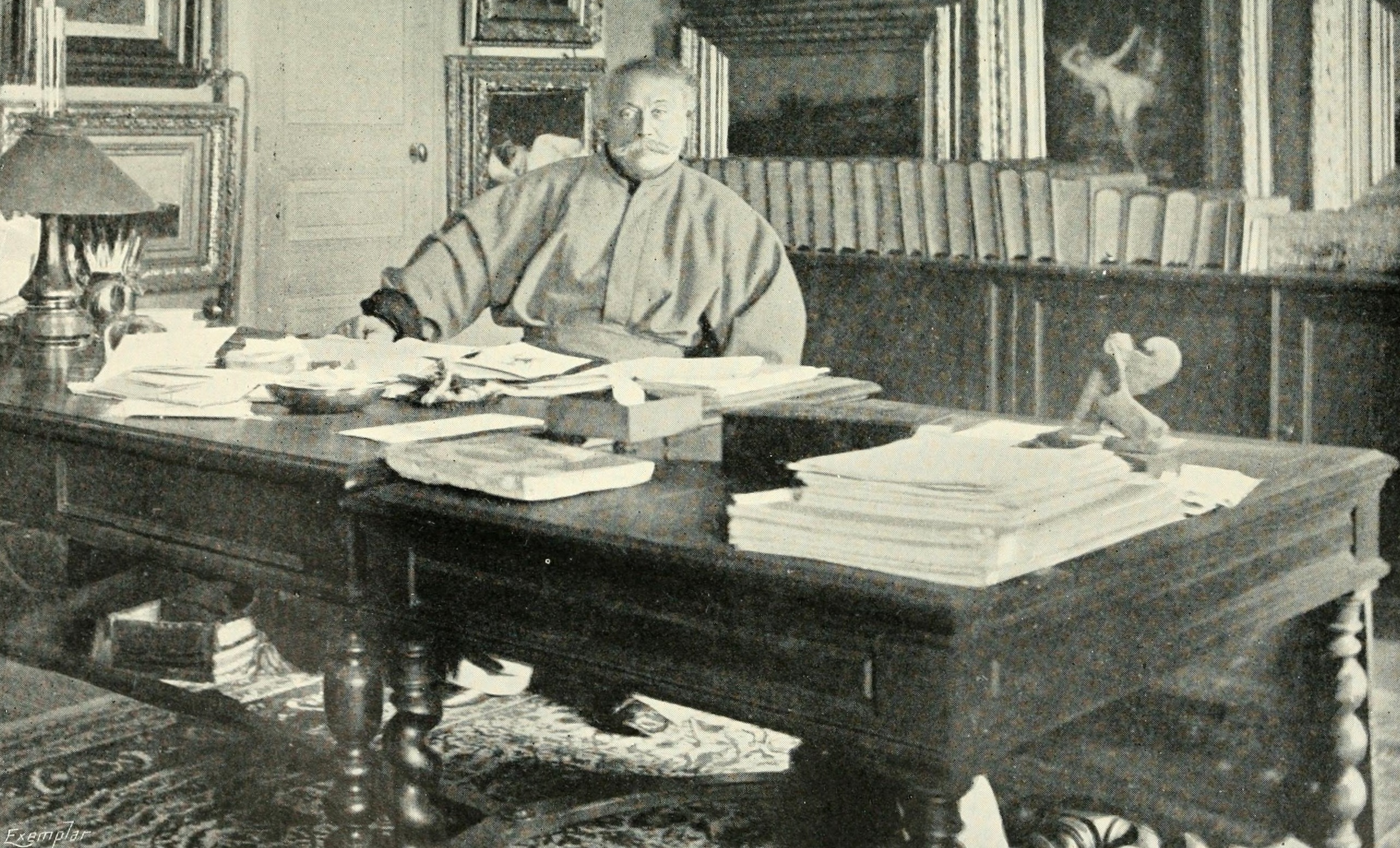 Portrait of Alexandre Dumas in his study